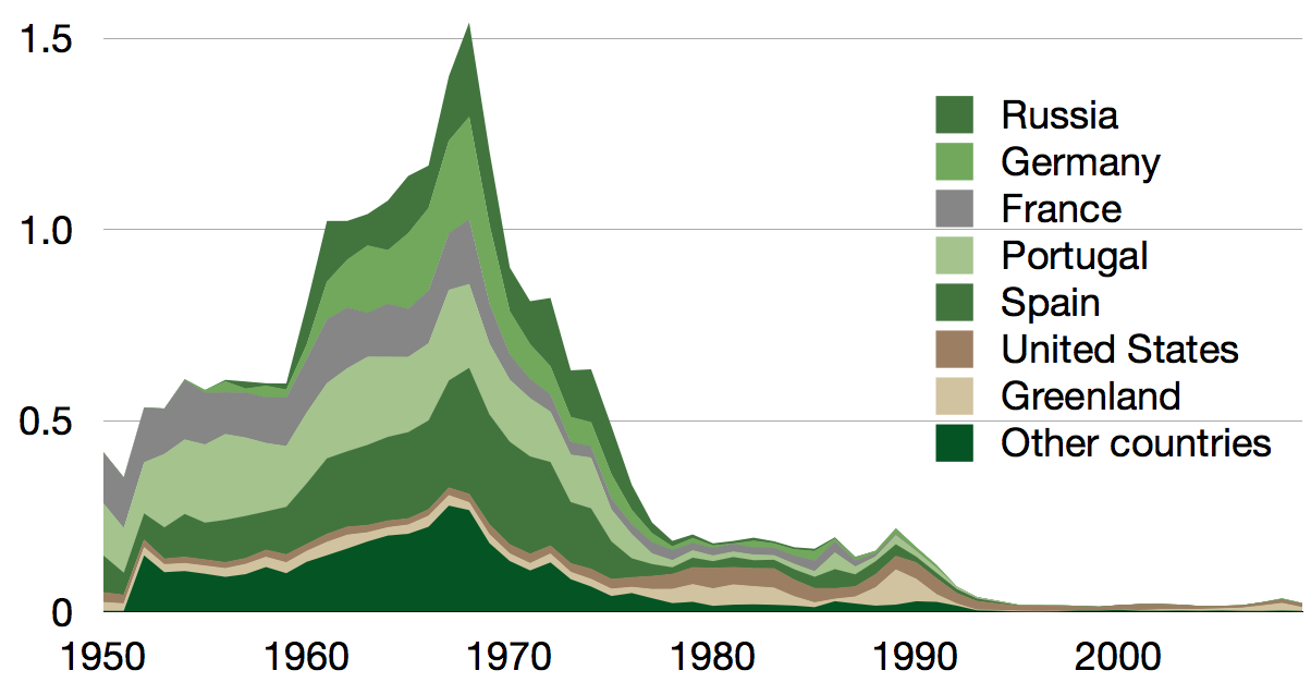 Time series for the collapse of the Atlantic northwest cod stock, capture in million tonnes with country data apart from Canada. Based on data sourced from the FishStat database FAO.